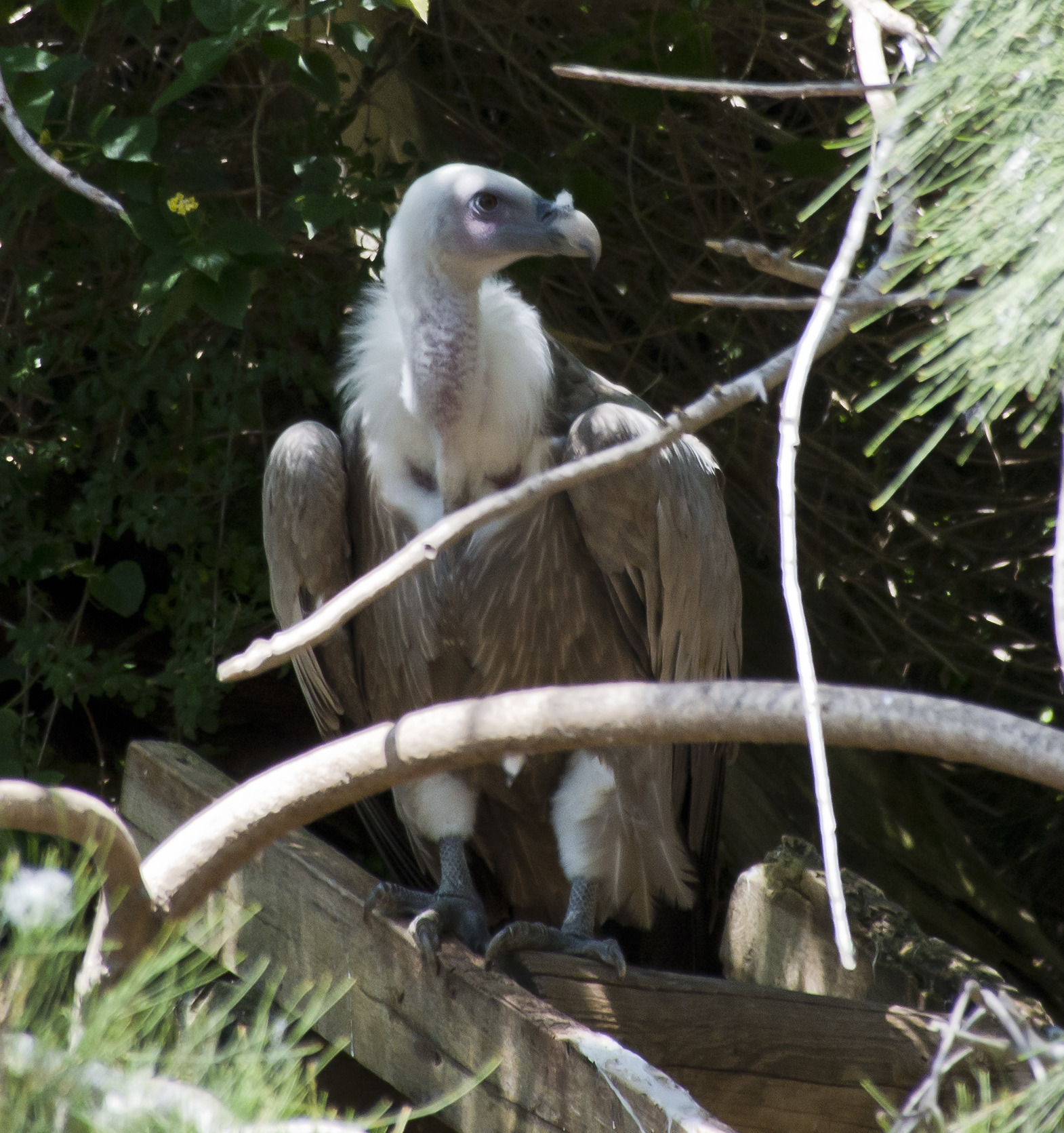 Haifa Educational Zoo, Haifa, Israel